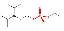 The toxicophor (organophosphorus ester) of VX